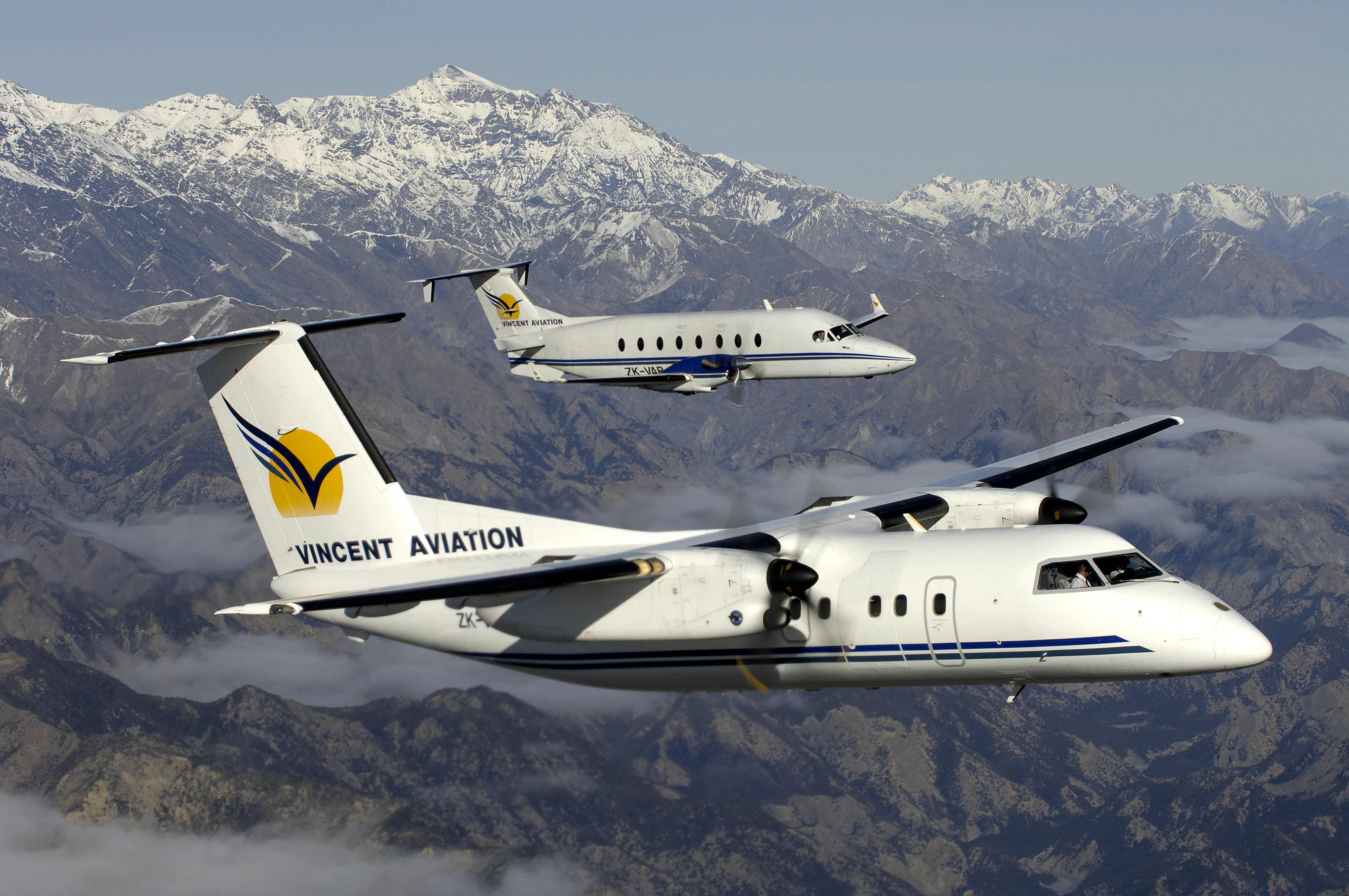 Vincent Aviation De Havilland Dash 8-100 (ZK-VAC) and Beechcraft 1900D (ZK-VAB) over New Zealand's South Island.